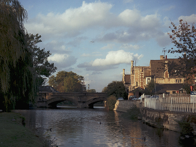 Bridge over the River Welland, Stamford.